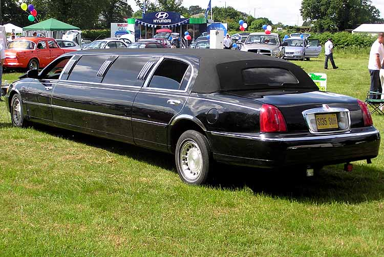 A black Lincoln limousine at a car show in Coalpit Heath, Bristol, England. Taken by Adrian Pingstone in June 2004 and released to the public domain.